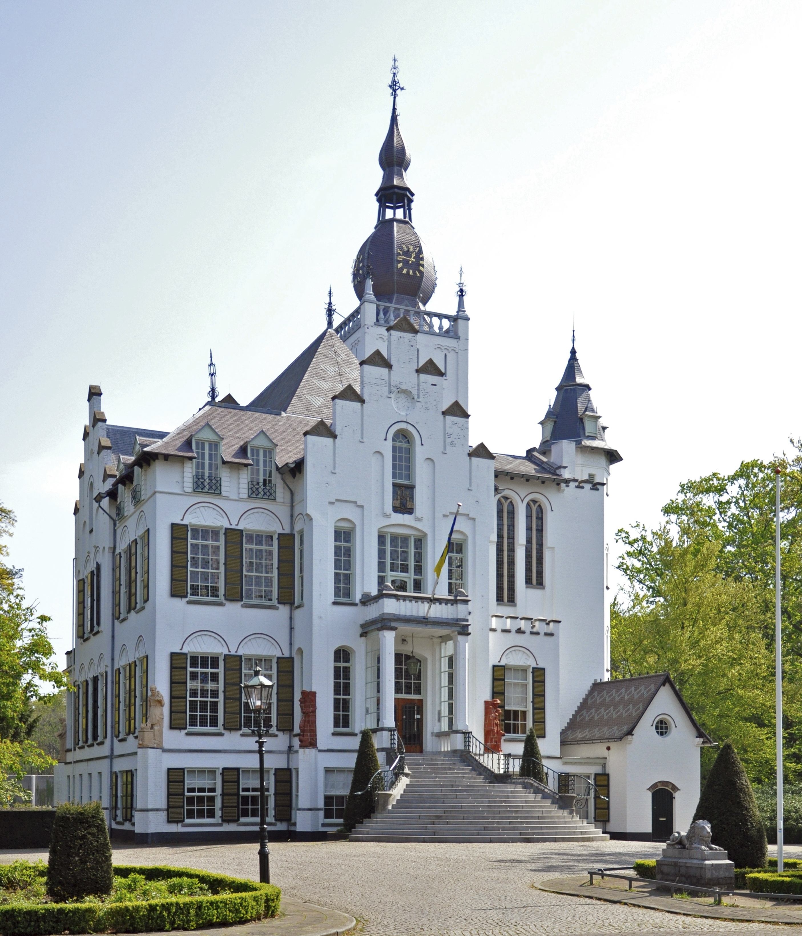 Landhuis Leeuwenstein; Seat of the local government in Vught, the Netherlands